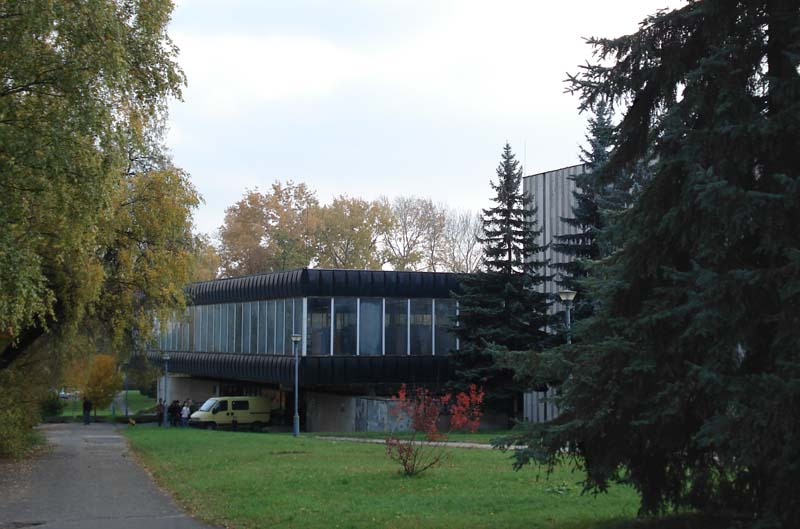 Central Library, University of Miskolc, Hungary